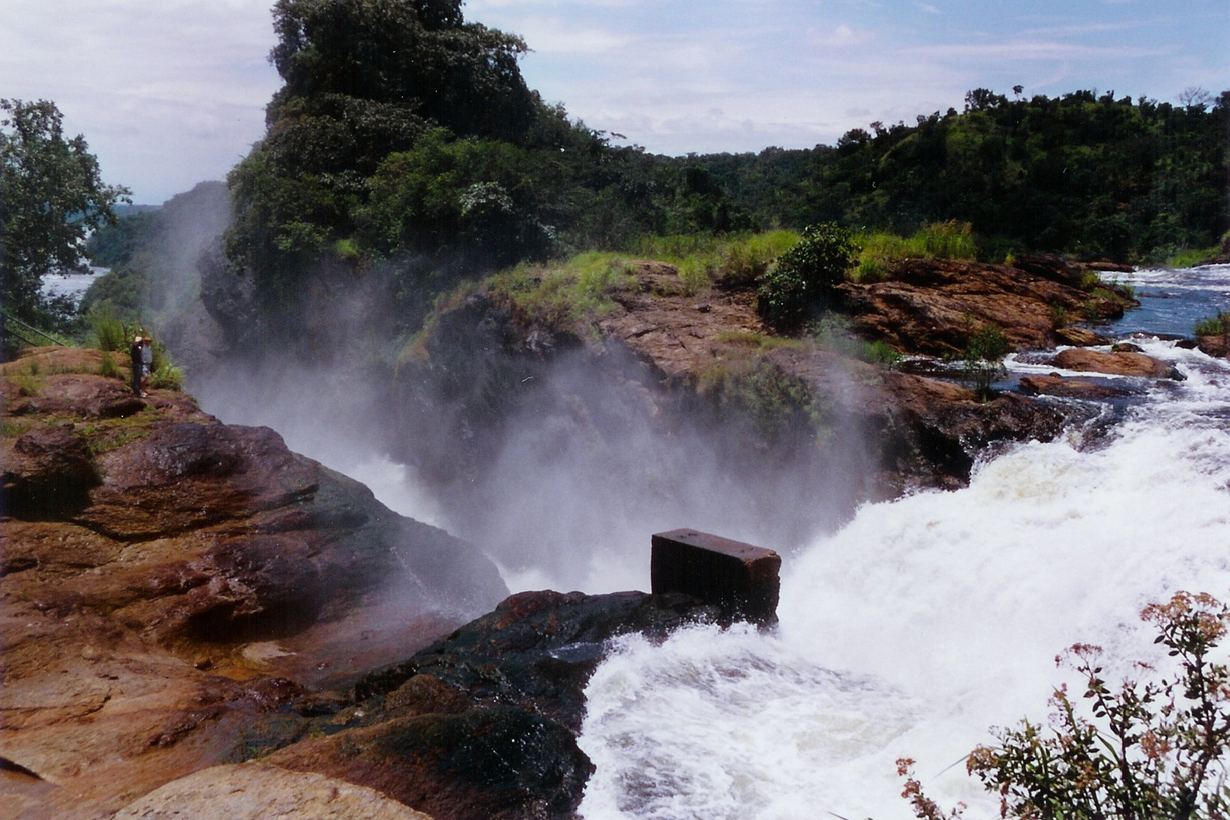 Photograph taken by Oliver Sedlacek in September 2000 of the Murchison Falls on the river Nile.